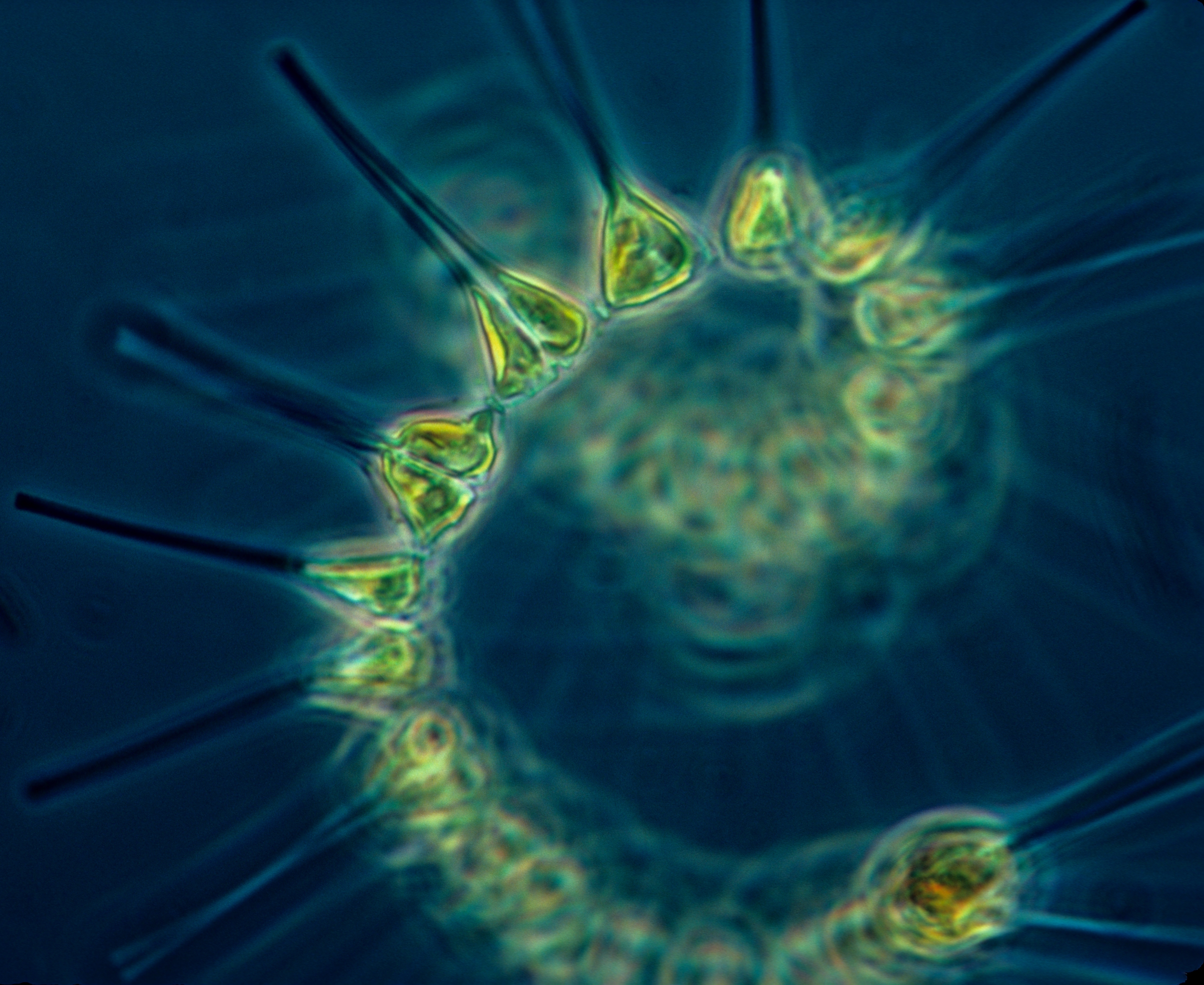 Phytoplankton - the foundation of the oceanic food chain.